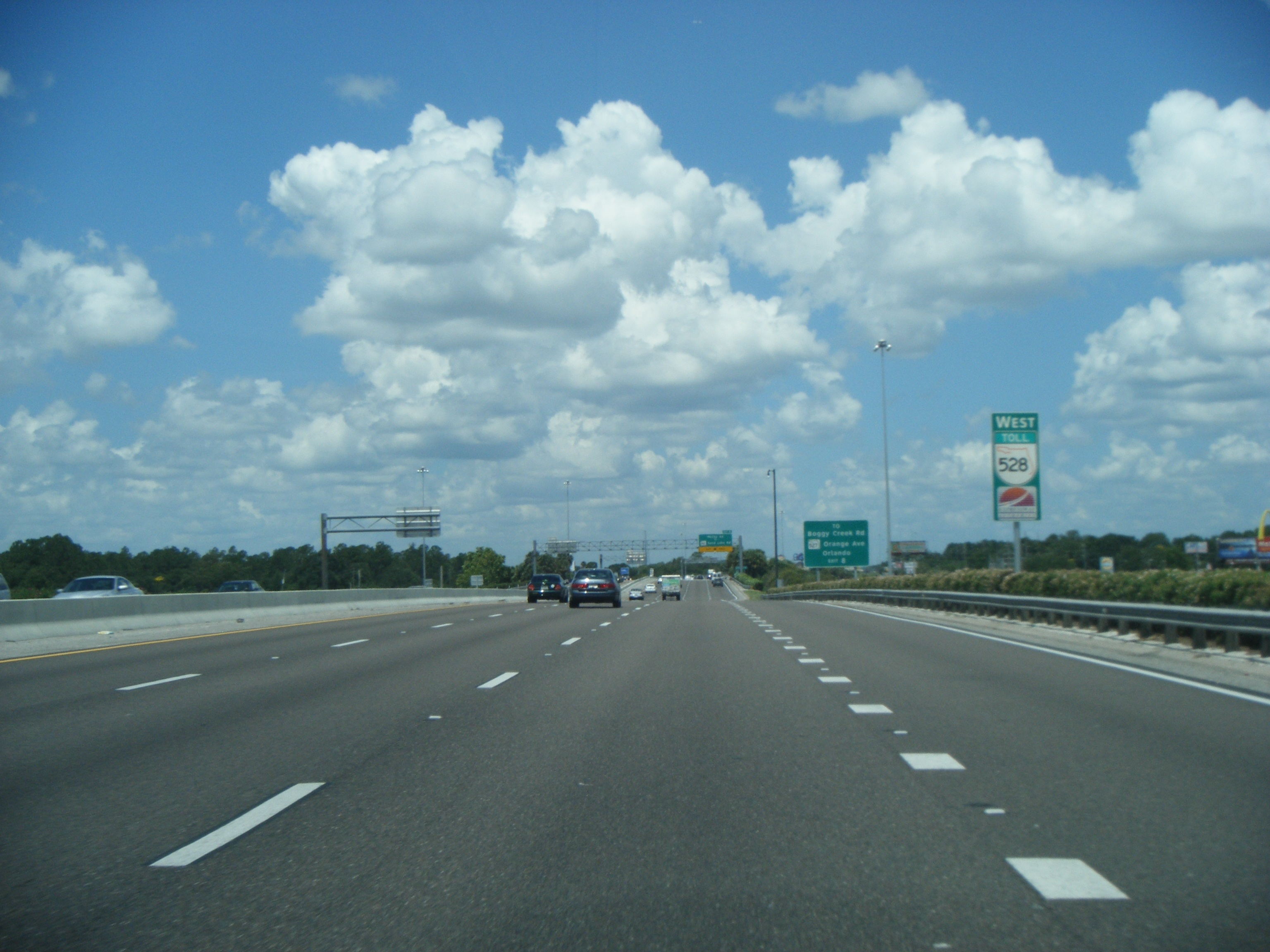 Westbound Florida State Road 528 (Martin Andersen Beachline Expressway) approaching the interchange with Florida State Road 482 (exit 8) in Orlando